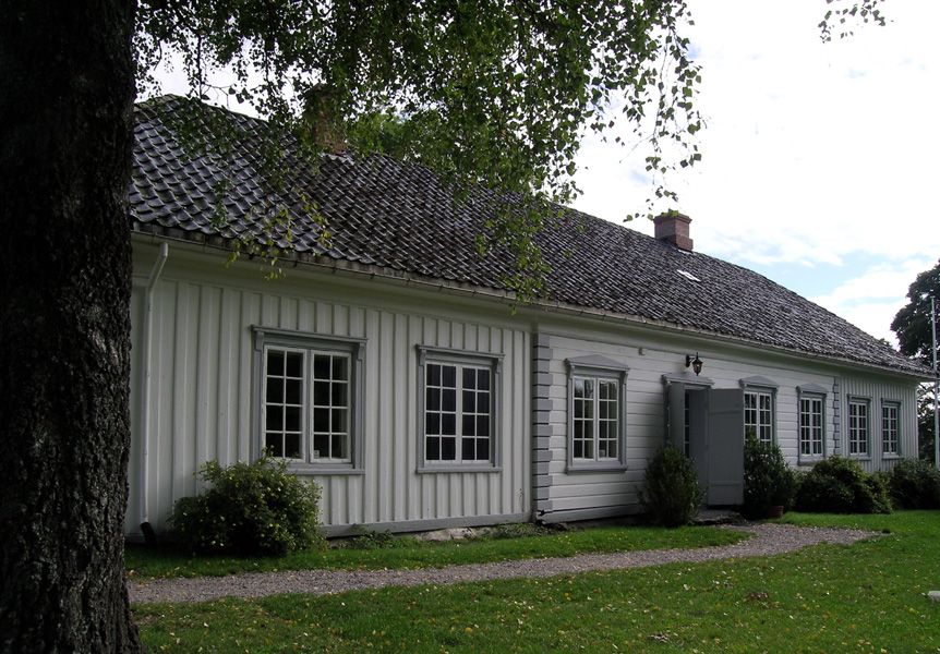 Venstøp in Skien, where Henrik Ibsen lived with his family between 1836 and 1843.